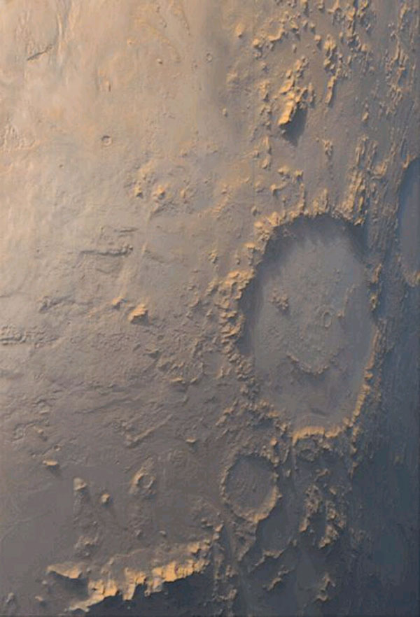 Image of KAMLOOPS Crater just below, and Southwest of crater GALLE ("Smiley Face Crater").